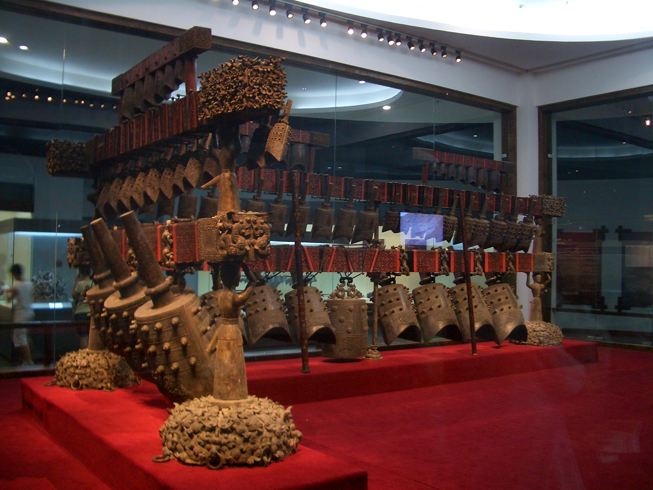 The bianzhong bell set in Hubei Provincial Museum